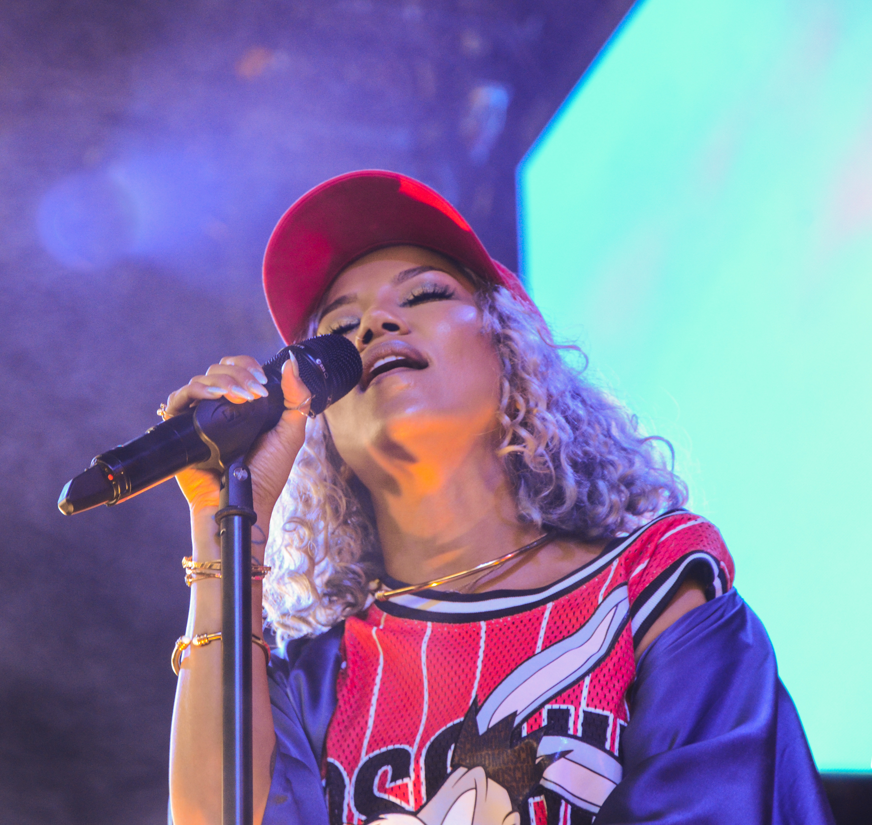 The High Road Summer Tour 2016 at the Molson Canadian Amphitheatre featuring Snoop Dogg, Wiz Khalifa, Jhené Aiko, Casey Veggies and Dj Drama. Photography by Charito Yap